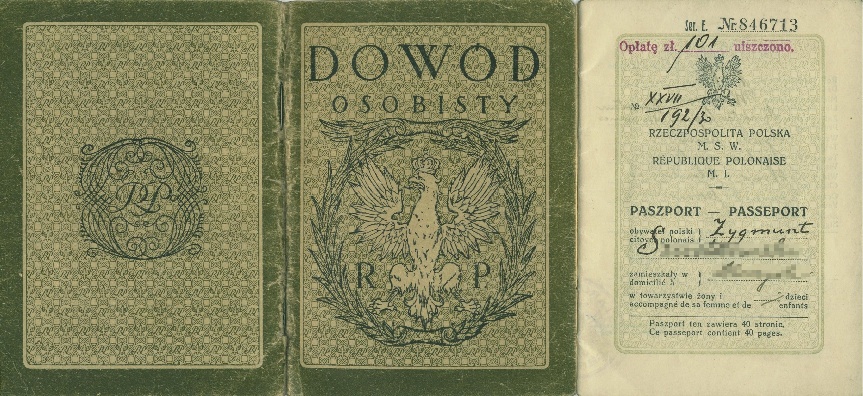 Passport of Polish citizien, 1930 cover and first page